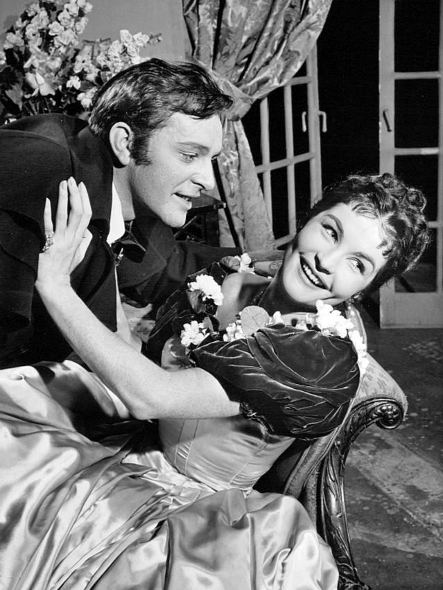 Photo of Richard Burton and Yvonne Furneaux from a Dupont Show of the Month presentation of "Wuthering Heights".